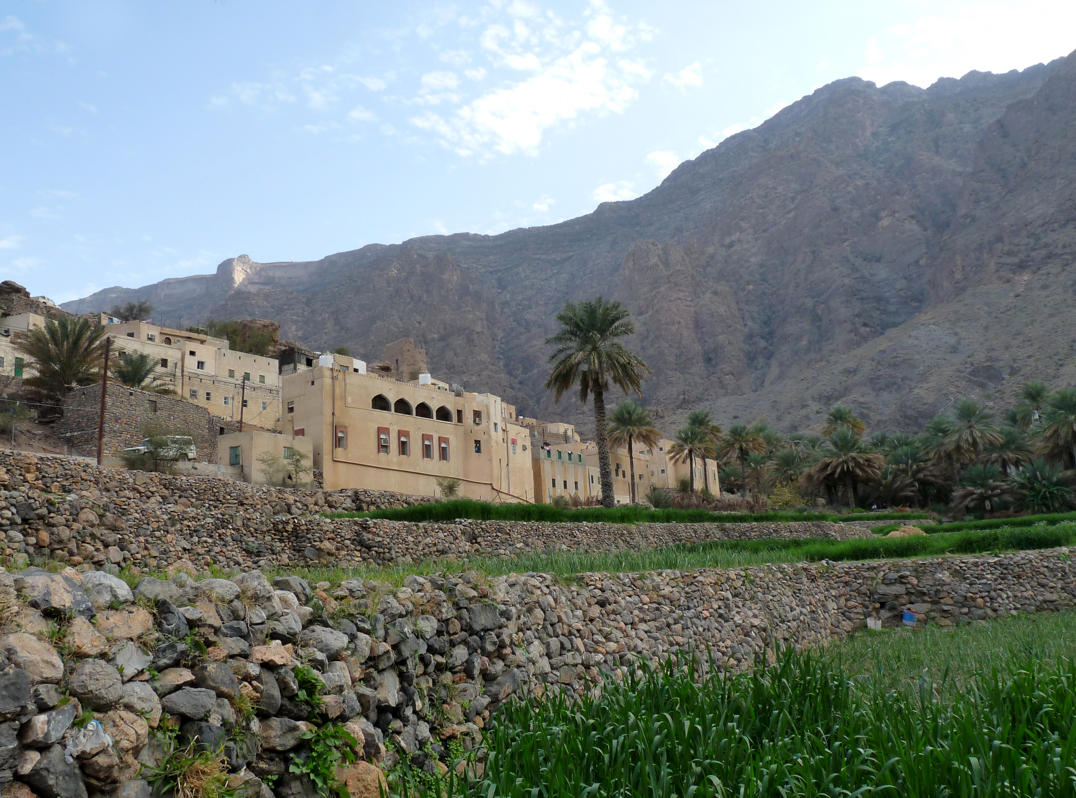 Bilad Sayt (Oman)